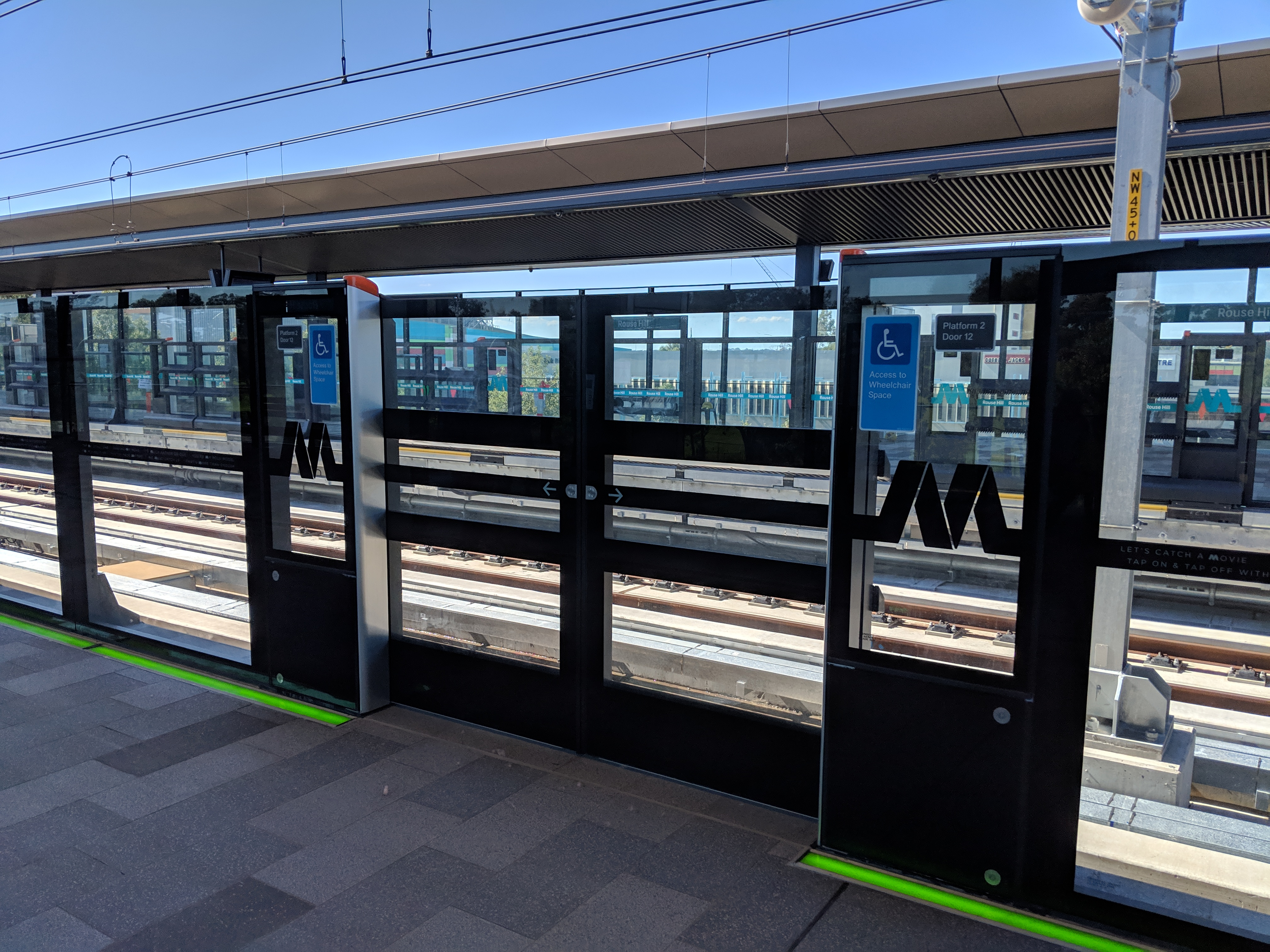 Rouse Hill Station, Sydney Metro